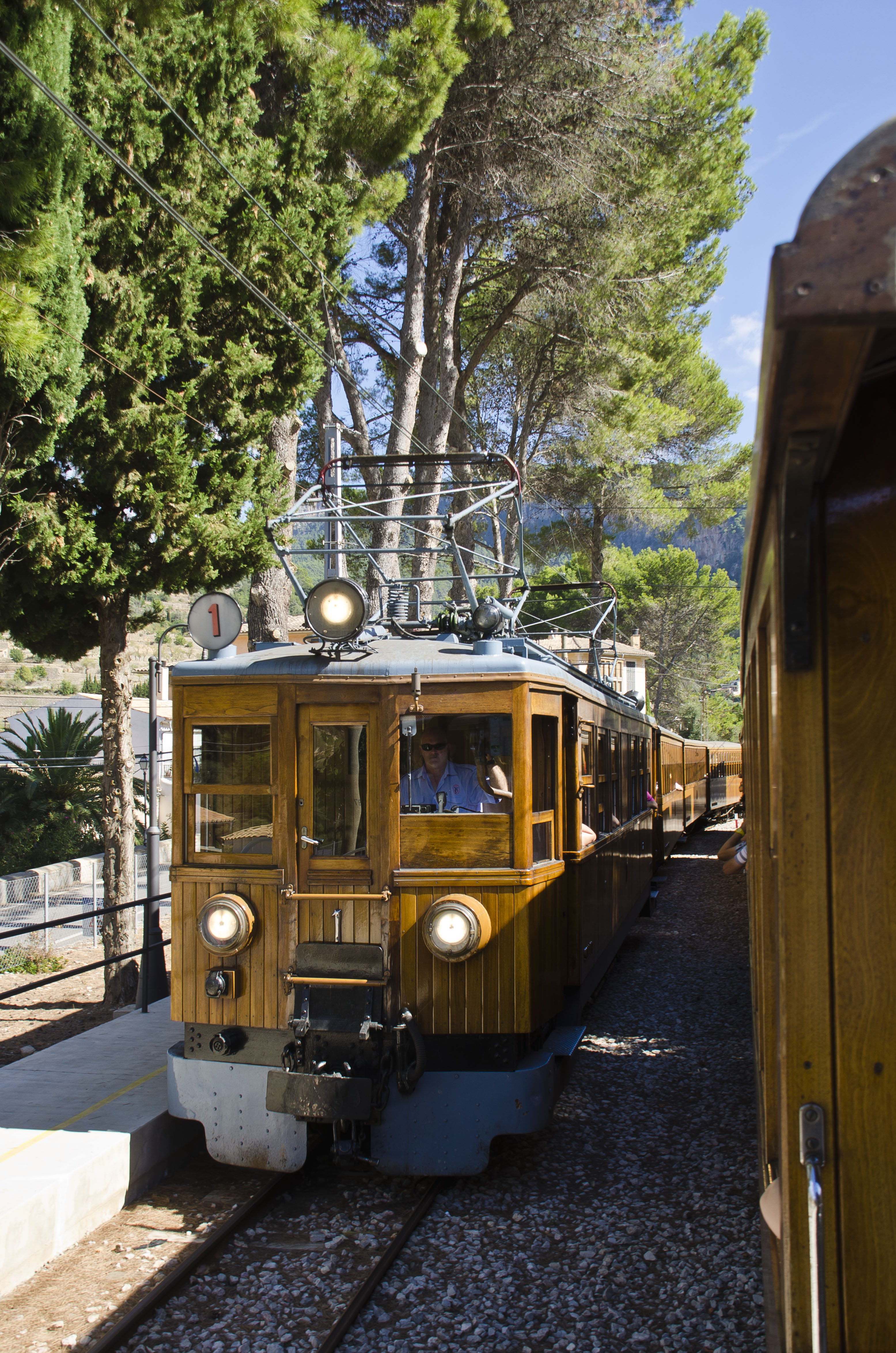 Two trains meeting in Bunyola station